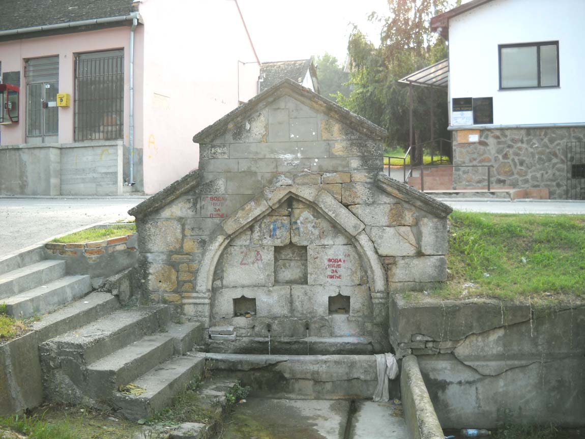 Turkish well in Stari Ledinci.